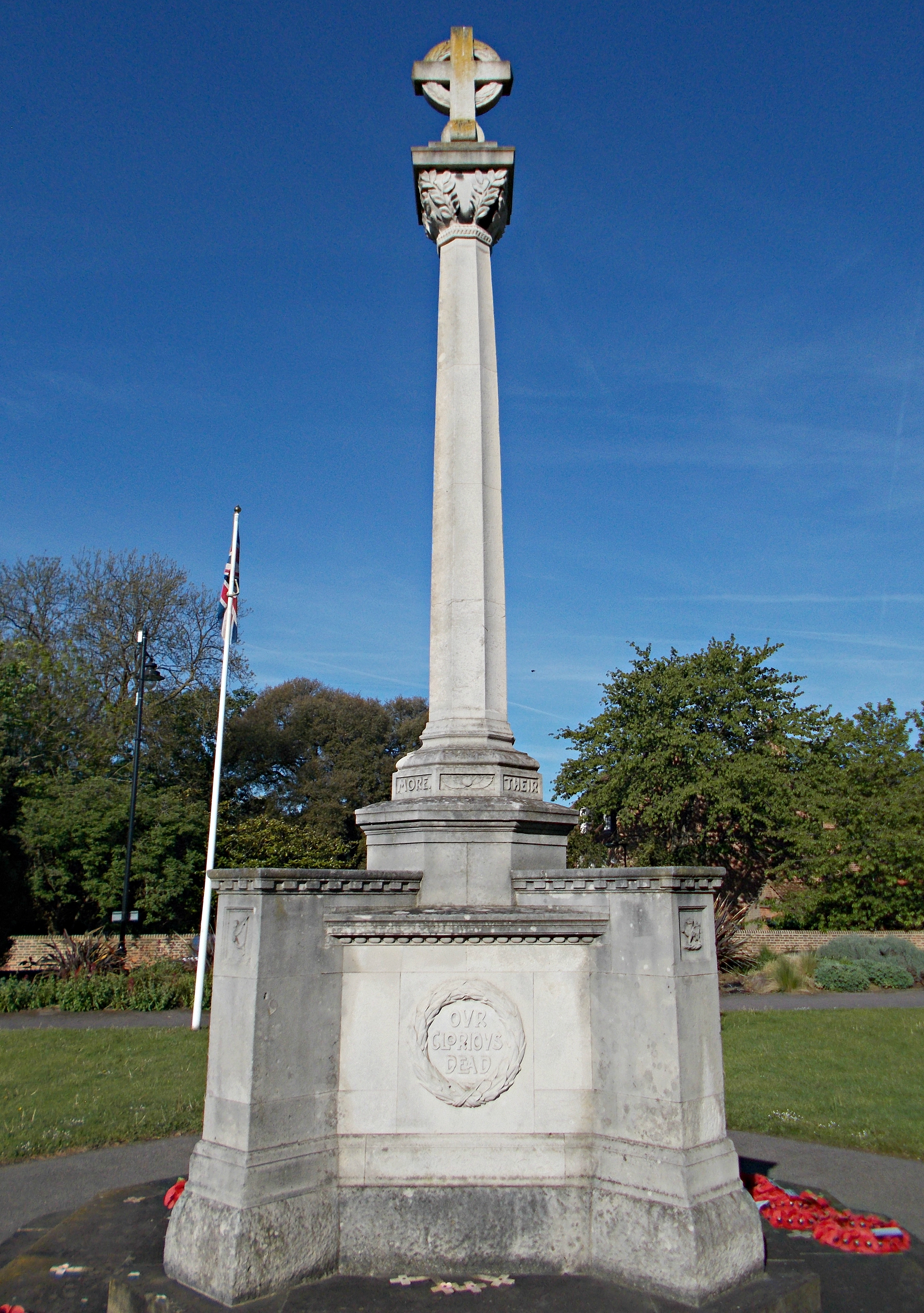 Cheam Village is a pleasant, leafy area of London about 12 miles from the centre of the city.